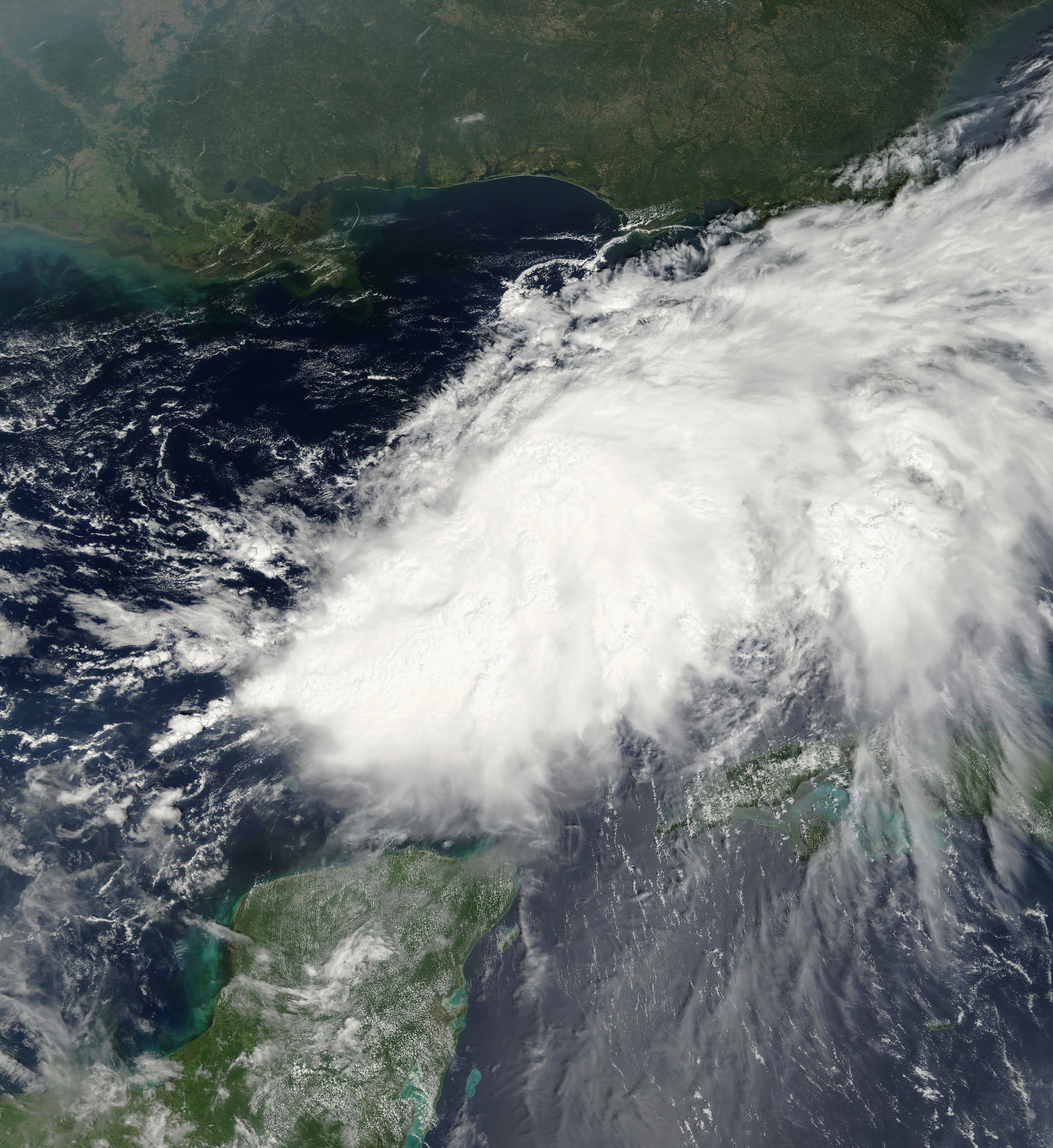 A trough of low-pressure over the Gulf of Mexico on the afternoon of September 11, 2002. The system would eventually organize into a tropical storm named Hanna.